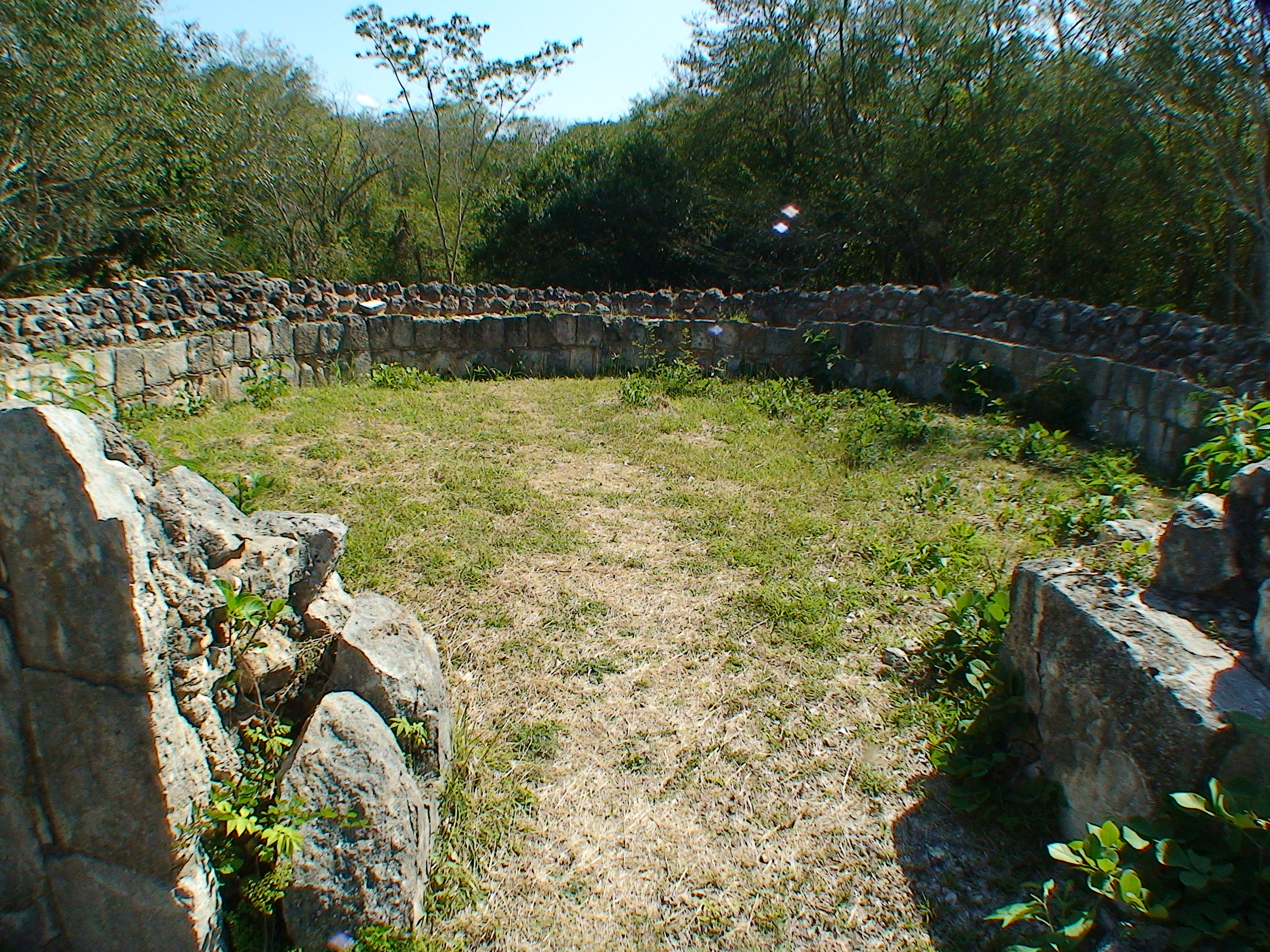 Uxmal, Yucatan, Mexico: round pyramid, interior